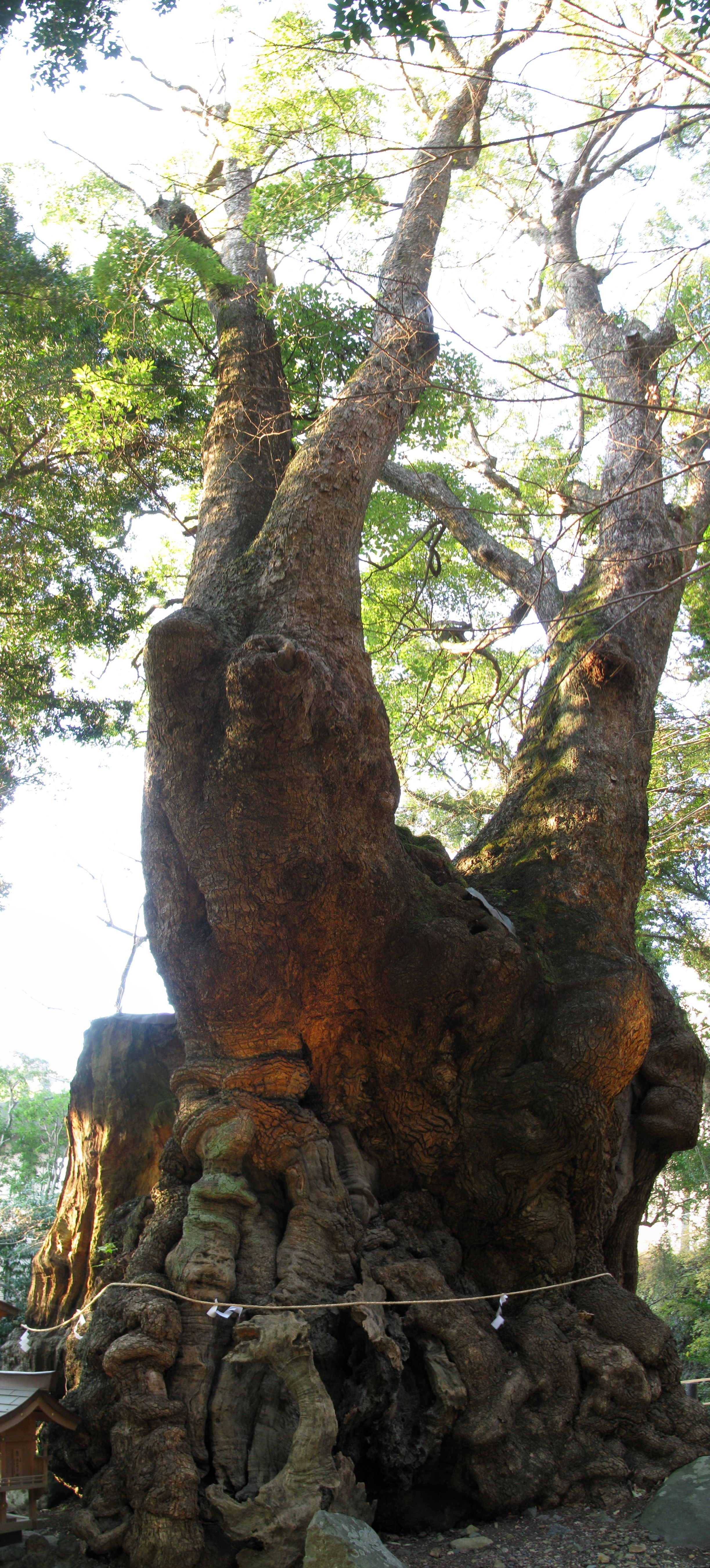 The Azusawake Jinja no Ōkusu of Kinomiya-jinja. This place is Atami, Shizuoka, Japan.